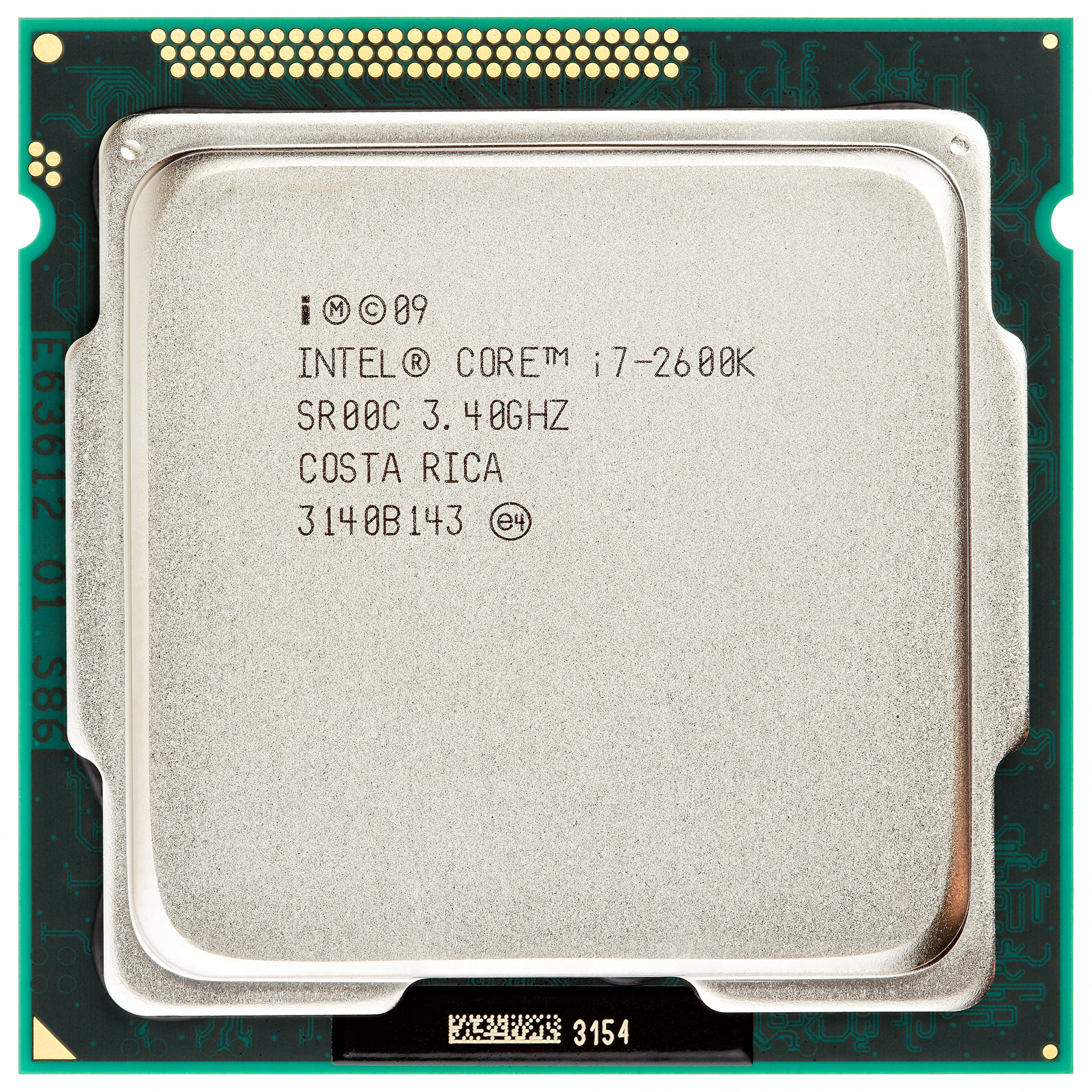 Top view of an Intel central processing unit Core i7 Sandy Bridge type core, model 2600K. LGA 1155 socket, 32 nm process, core frequency 3.40 GHz.